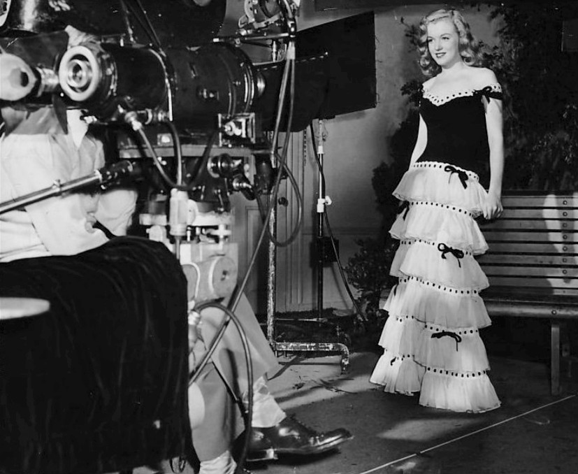 Photo of Marilyn Monroe-this appears to have been one of her first jobs in the film industry.